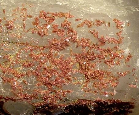 Piemontite, Quartz, Calcite, Kaolinite Locality: No. 5 shaft, Messina mine, Messina District, Limpopo Province, South Africa (Locality at ) Size: 7.1 x 3.0 x 2.6 cm. Piemontite is a rare, red epidote group silicate. This is a fine combination specimen from the famous No. 5 shaft at the Messina Mine of South Africa. Red piemontite microcrystals richly and preferentially cover three sides of a doubly terminated, sharply trigonal, transparent to translucent quartz crystal. Calcite crystals and kaolinite are additional, complimentary accessory minerals on the glassy quartz crystal. This is a fascinating doubly terminated quartz crystal, with one end being a sharp, single termination and the other end being multiply terminated. Ex. G.R. Glover Collection.